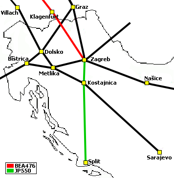 Zagreb FIR in 1976. Author: Jonathan McFly / PD